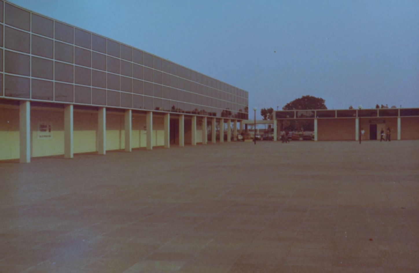 Milton Keynes, Shopping Center